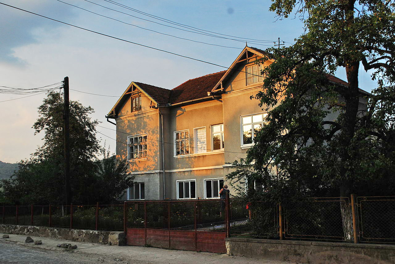 Historical building in Decebal street 27, Brad, Hunedoara County, Romania